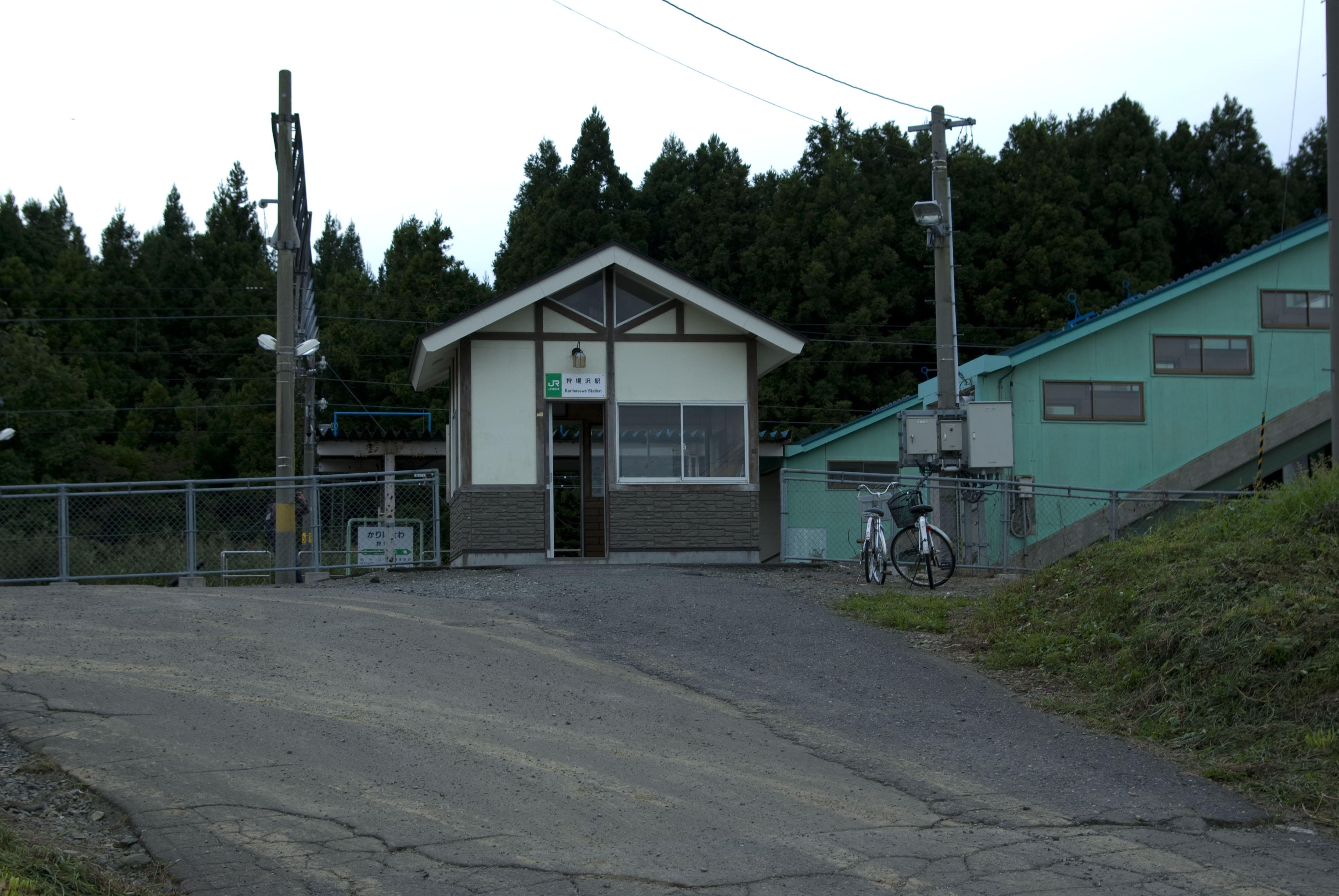 Aoimori Railway Karibasawa Station